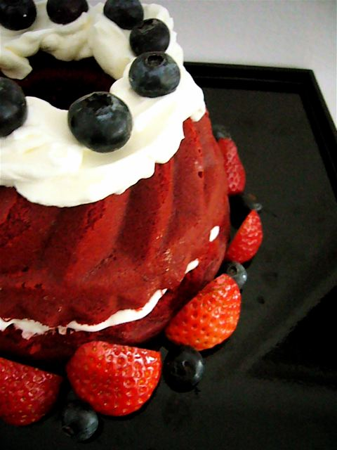 red velvet cake with whipped cream, blueberries and strawberries